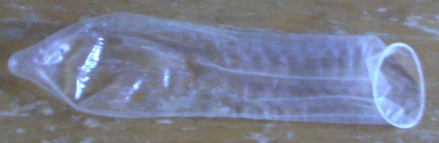 A picture of an opened, unrolled latex condom, taken by myself (Windchaser).